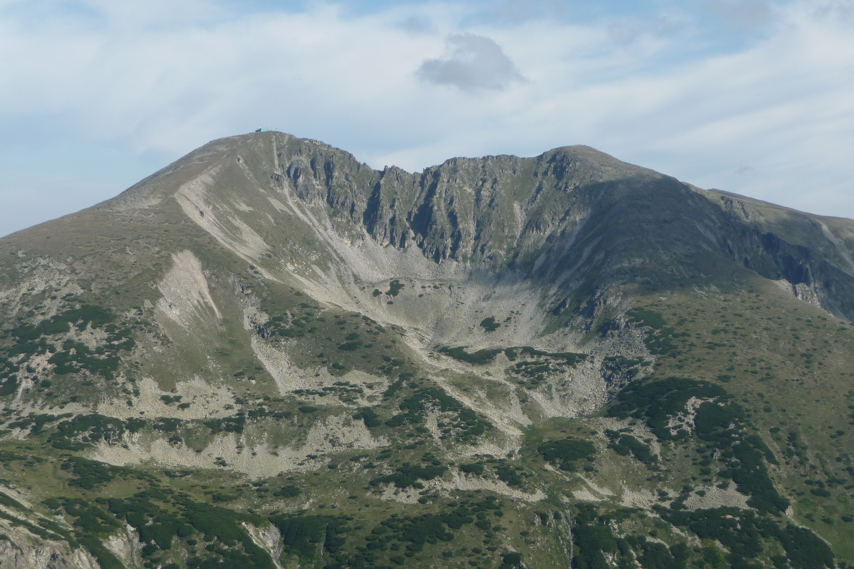 Musala (2925m) - highest peak in Balkan Peninsula